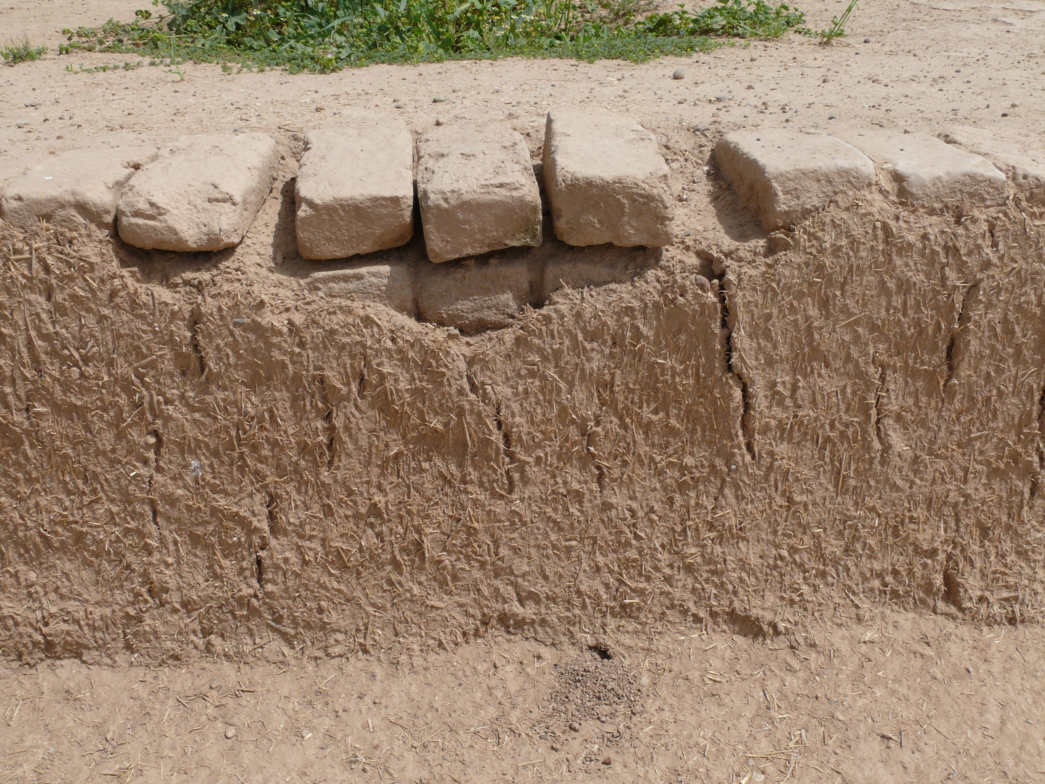 Partial reconstitution of wall by Archaeologists. Mud bricks, Mud and dry grass mortar. Apadana of Susa. Iran.